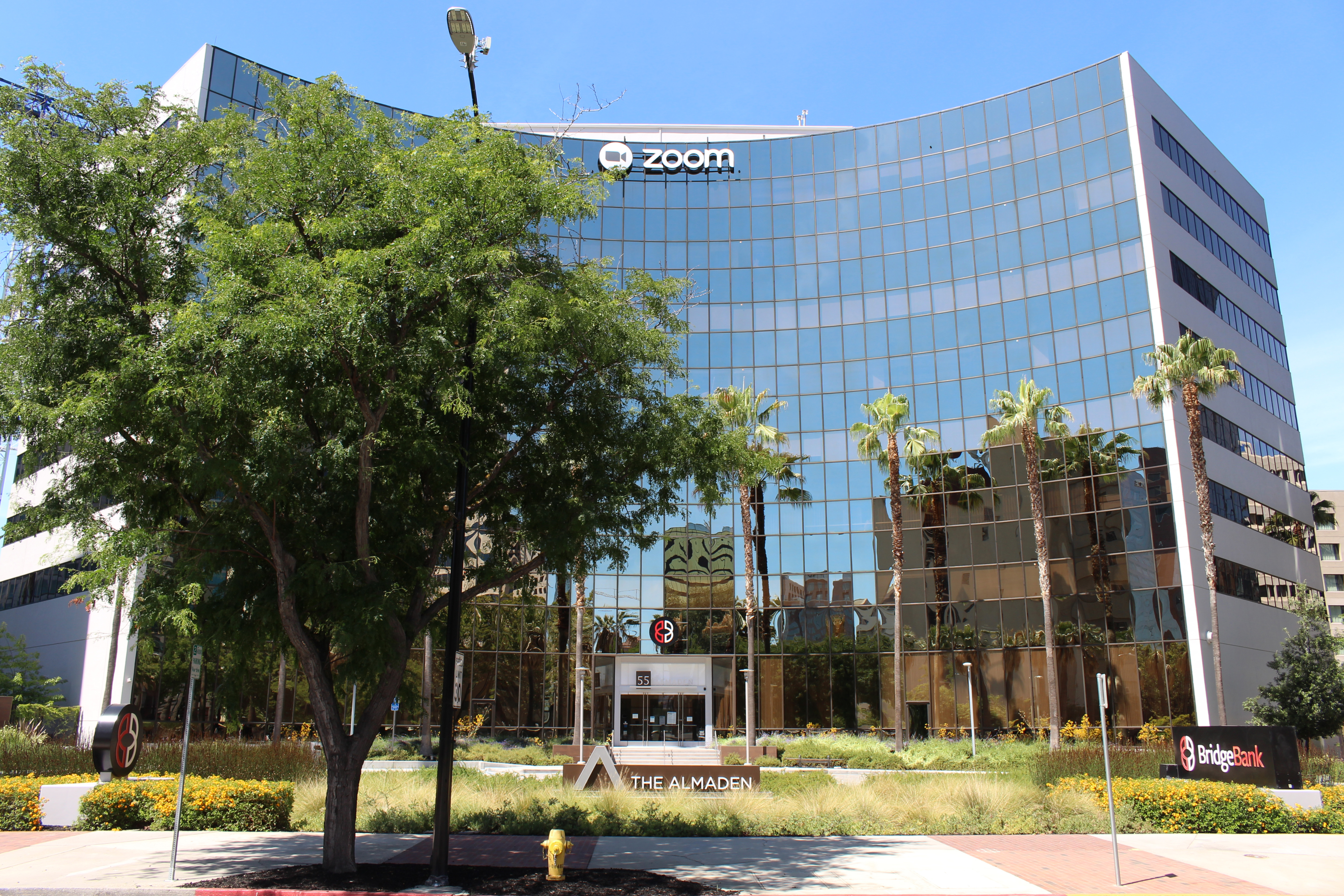 Zoom headquarters on Almaden Boulevard in San Jose, California. Photographed on June 21, 2020 by user Coolcaesar.